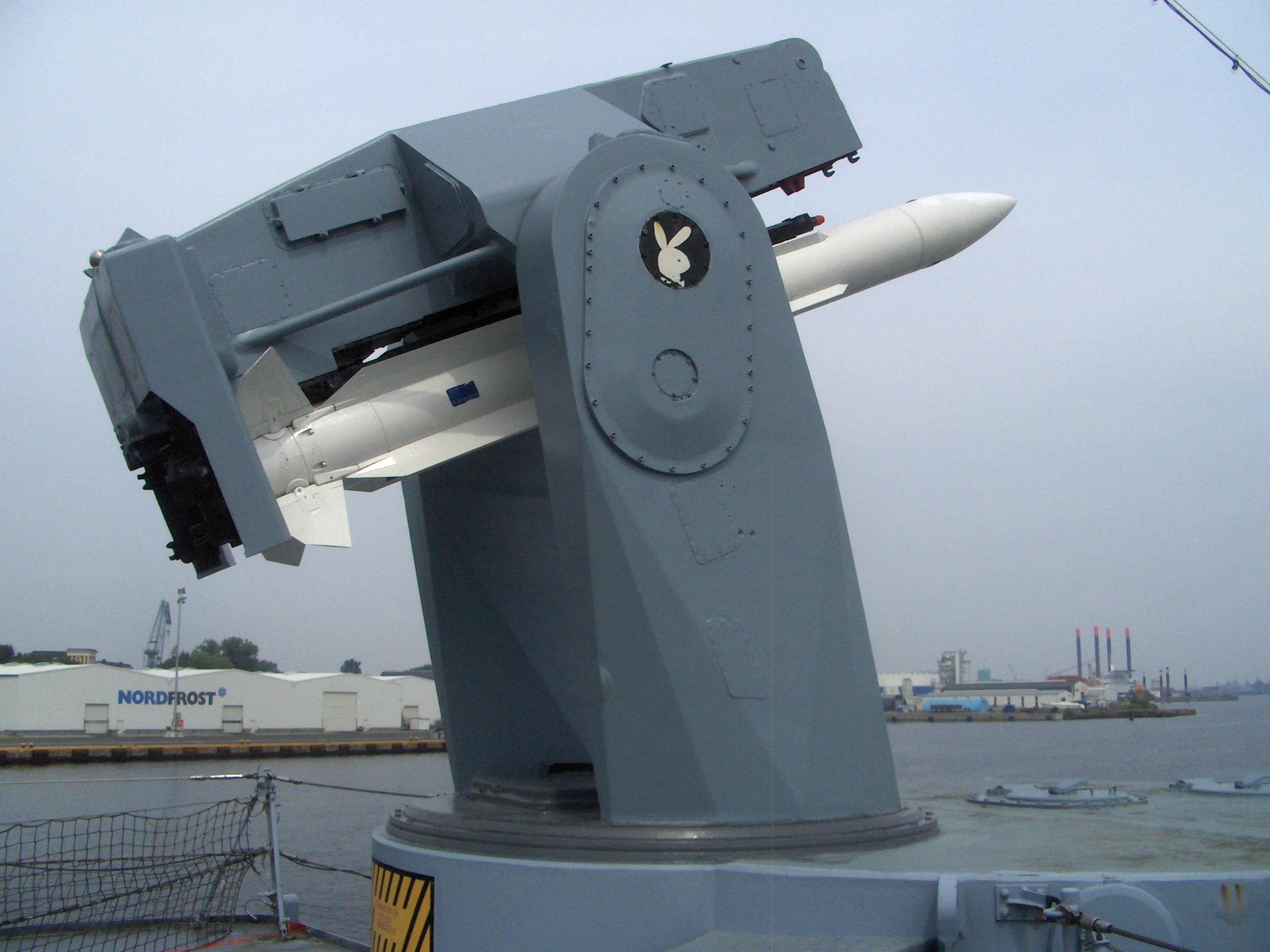 View of the Mk 13 missile launcher with an RIM-66 Standard MR missile aboard the German museum ship Mölders (D 186) at Wilhelmshaven, Germany.